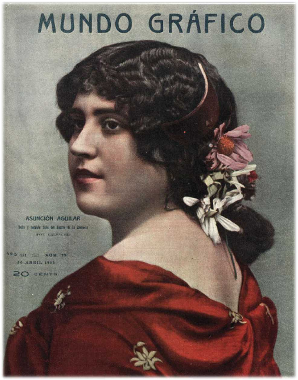 Spanish Soprano vocalist Maria Ros, otherwise Asunción Aguilar (1895-1970)